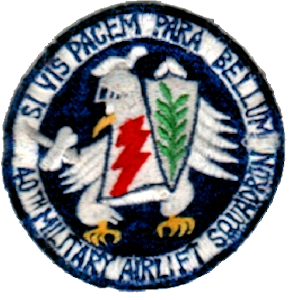 Emblem of the USAF 40th Military Airlift Squadron - MAC